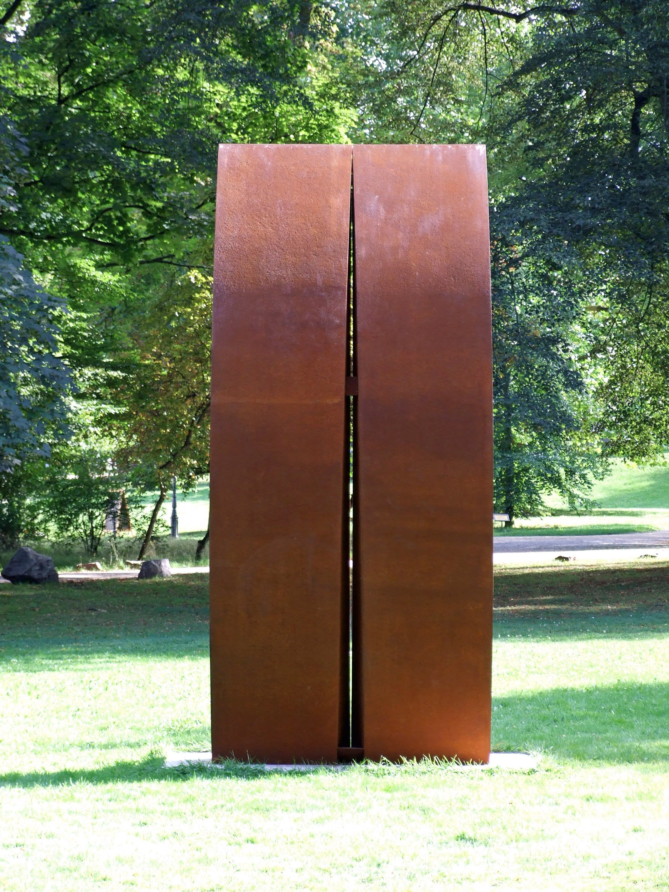 "Longo Monolith" from Beverly Pepper at "blickachsen 7", 2009, "Kurpark" of Bad Homburg, Hesse, Germany